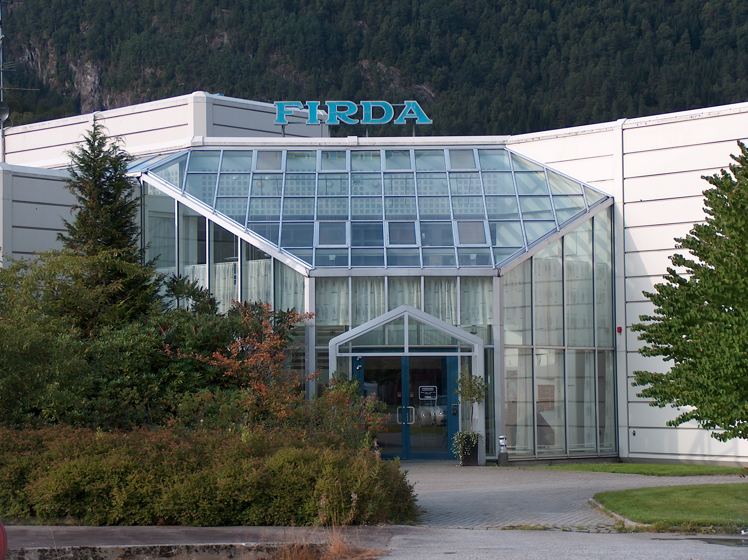 Avishuset Firda in Førde, Sogn og Fjordane, Norway.